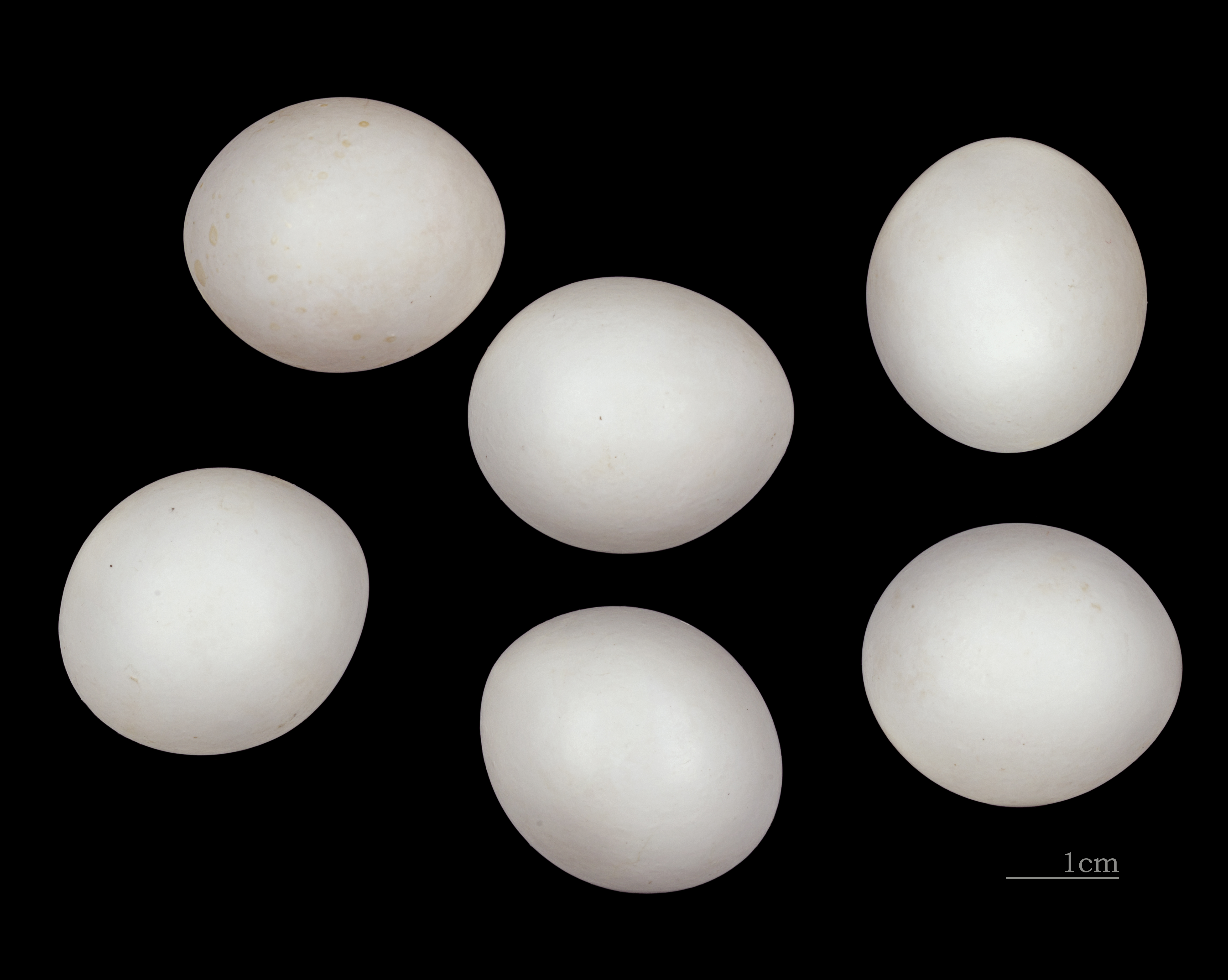 Egg of Pied Kingfisher. Collection of René de Naurois/Jacques Perrin de Brichambaut.